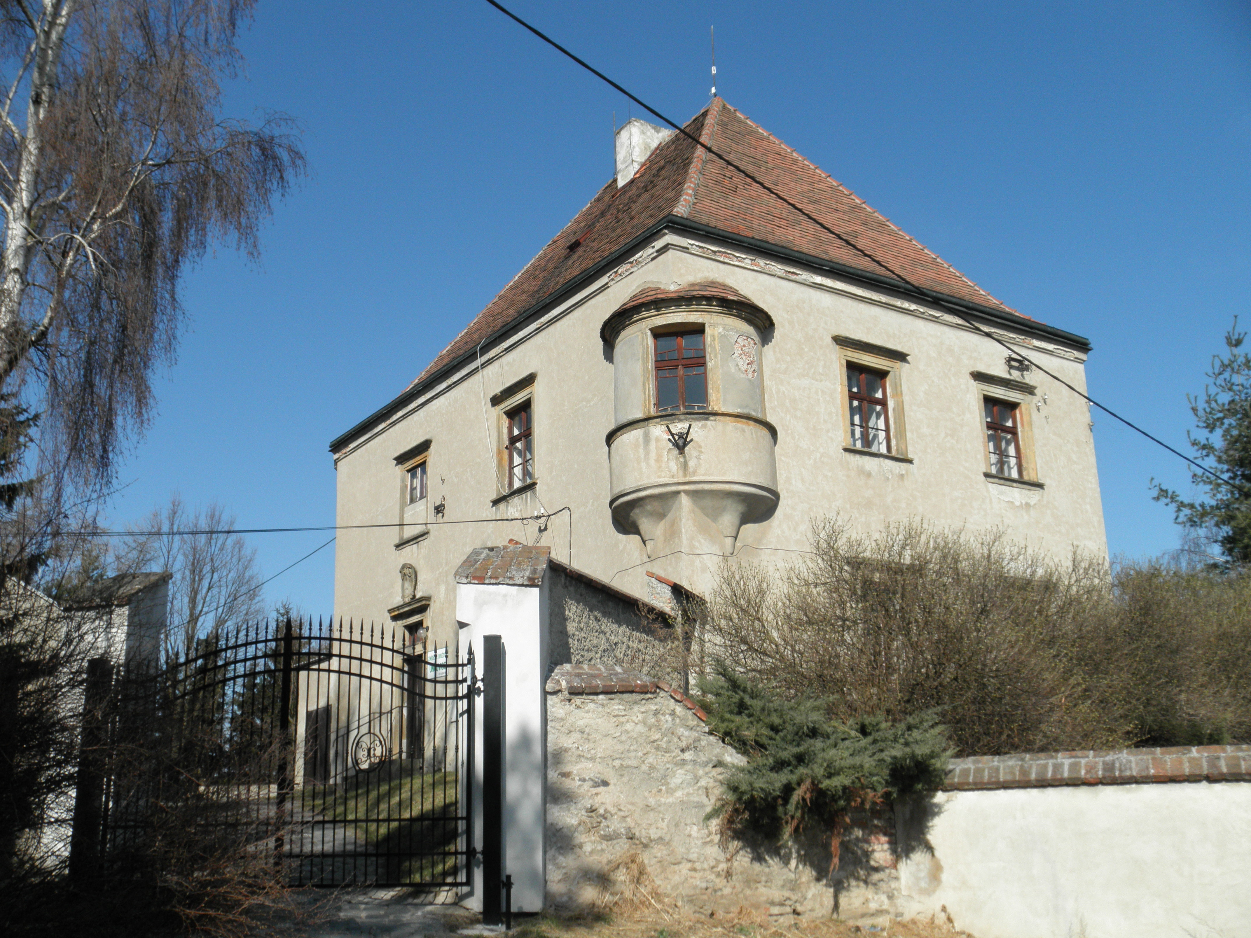 Stronghold in Unčovice from the Renaissance, view from south-west shows the bay window.